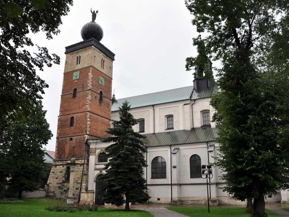 The Church of the Holy Sepulchre (Bazylika Grobu Pańskiego) in Miechów, Poland, is a 14th century Gothic basilica